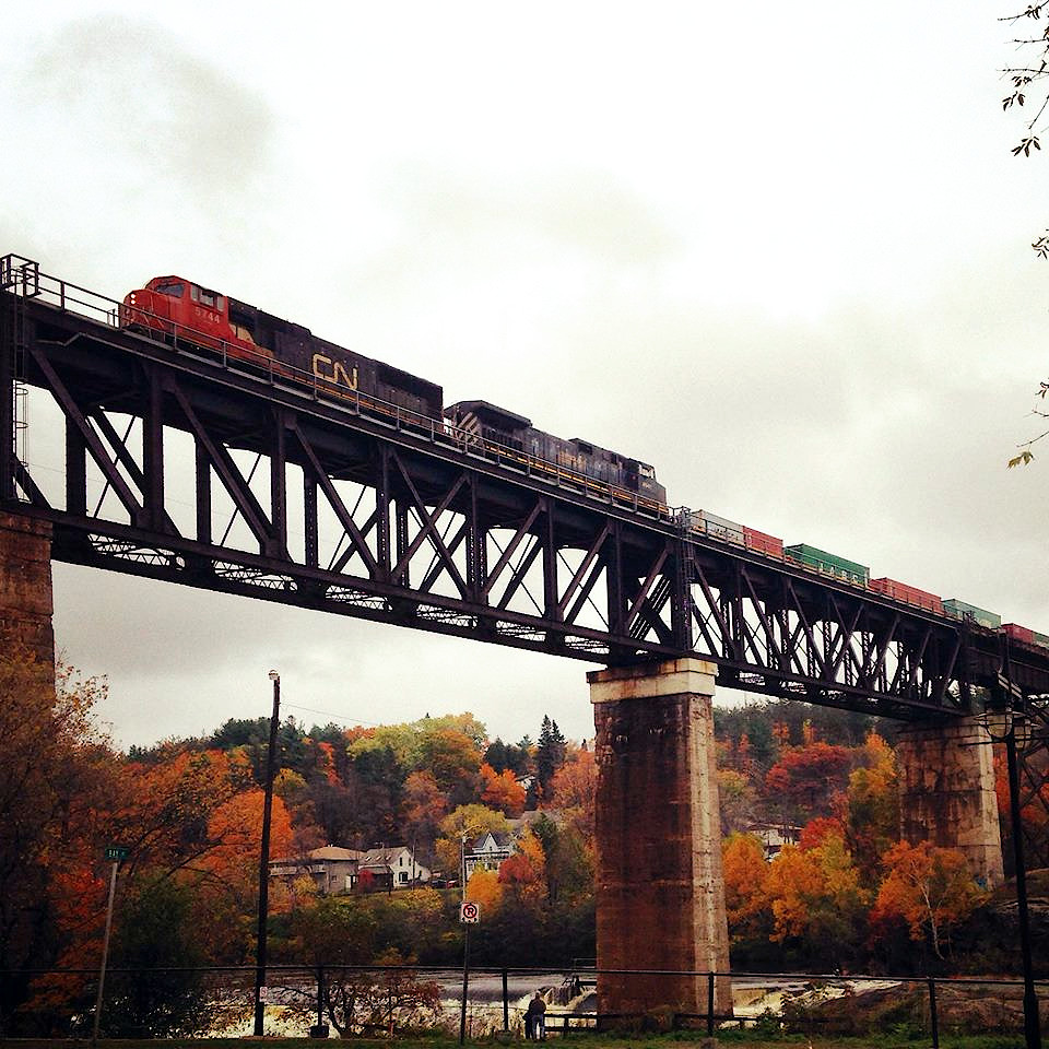 Train over bridge